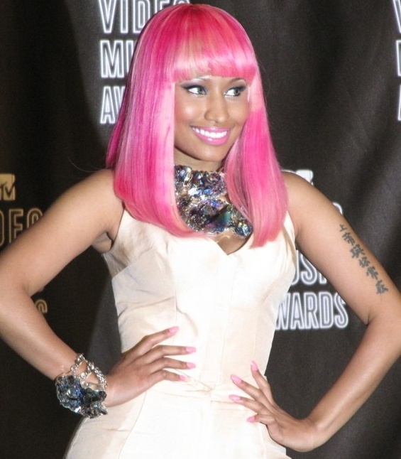 Nicki Minaj at 2010 MTV Video Music Awards.